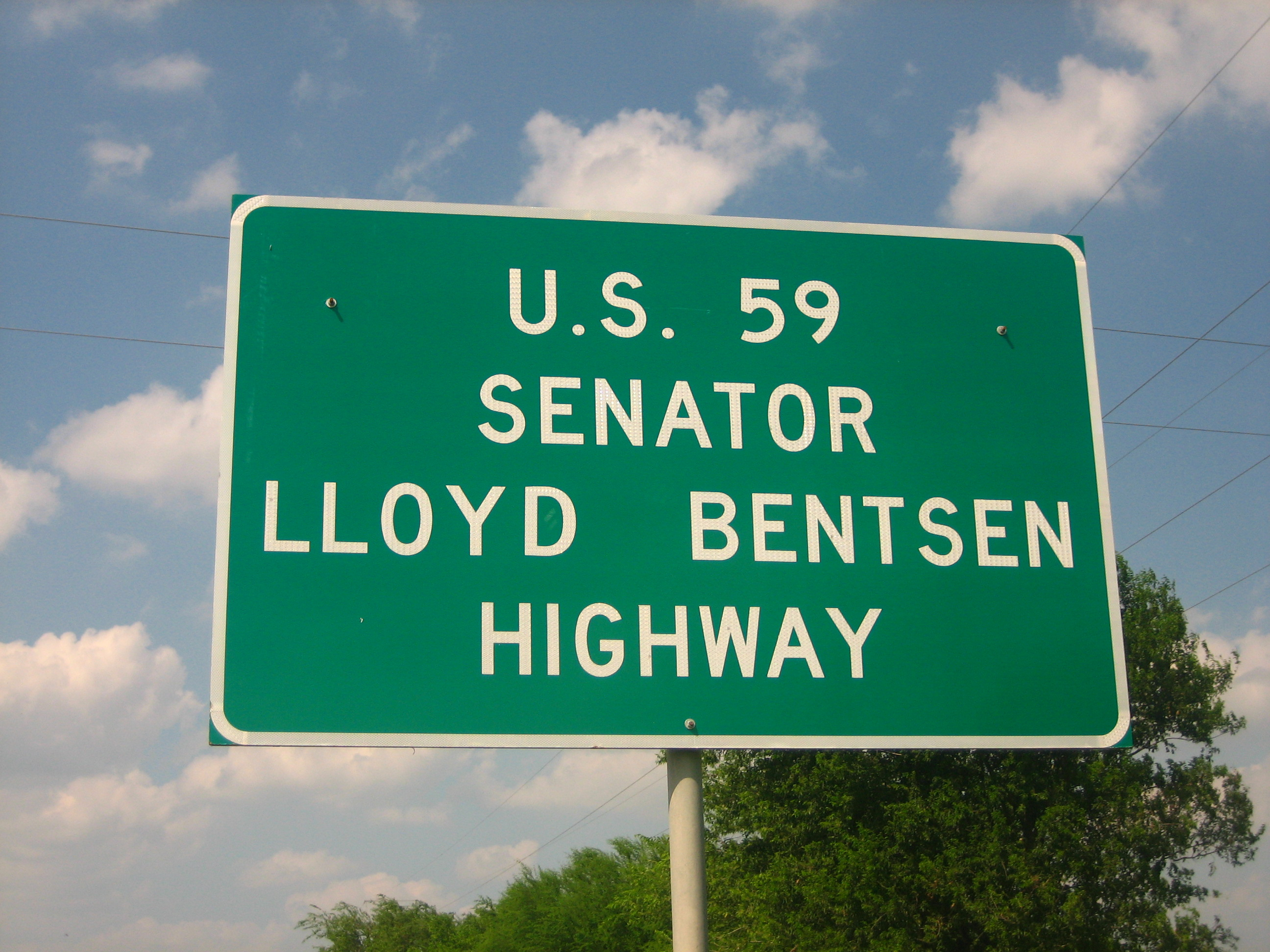 I took photo on July 30, 2008.Billy Hathorn (talk) 23:52, 7 September 2008 (UTC)